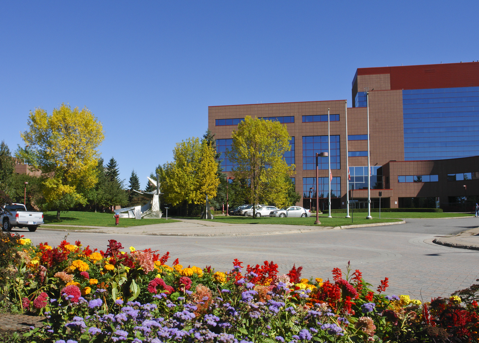 This is Roberta Bondar Place in Sault Ste. Marie, Ontario. I took this photo in Sept 2010. Sam.